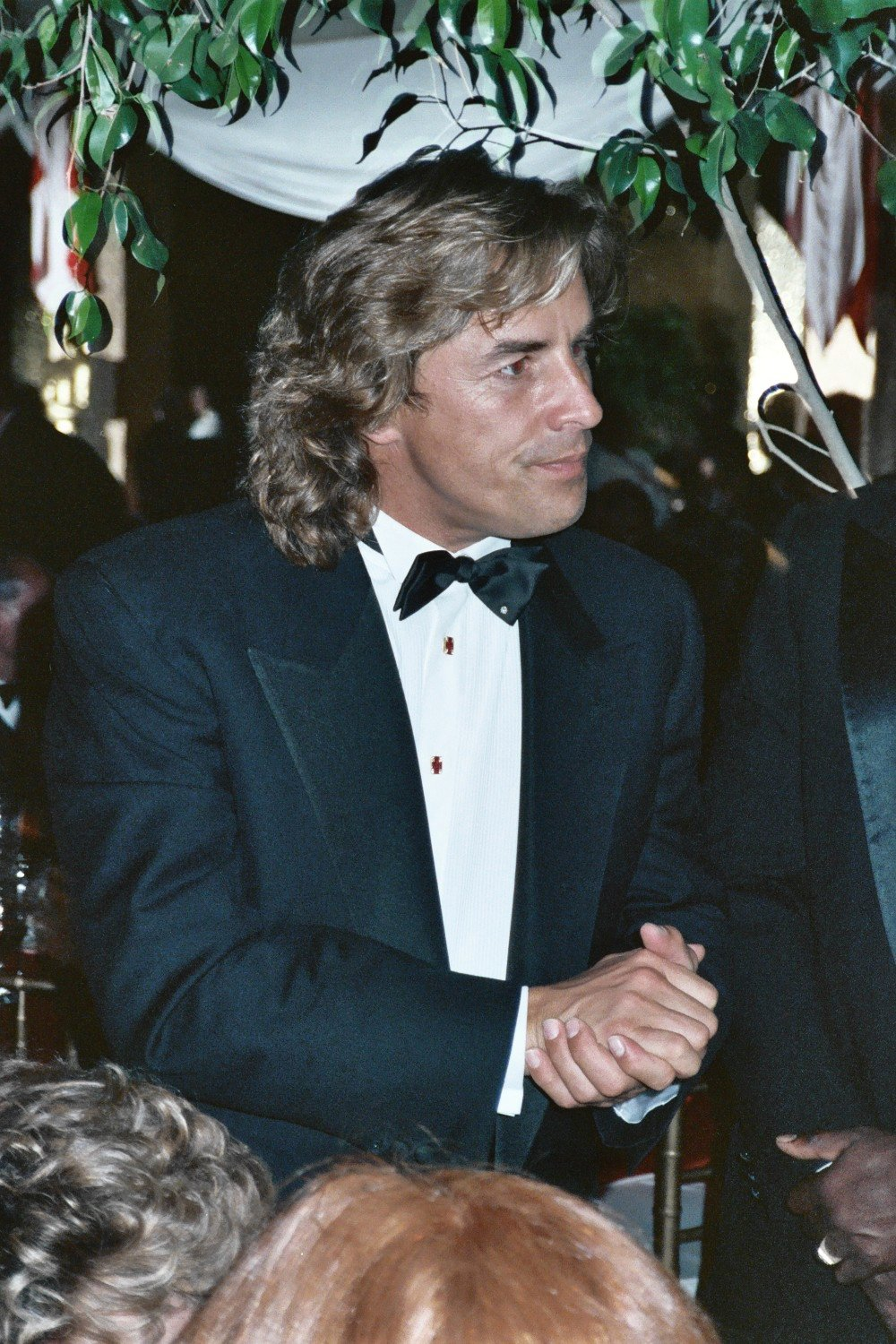 Don Johnson at the Governor's Ball after the telecast of the 61st Annual Academy Awards, 1989.